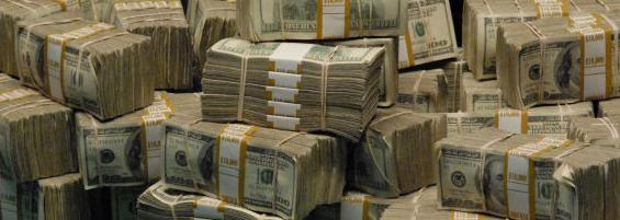 Cash in the 2007 WSOP.